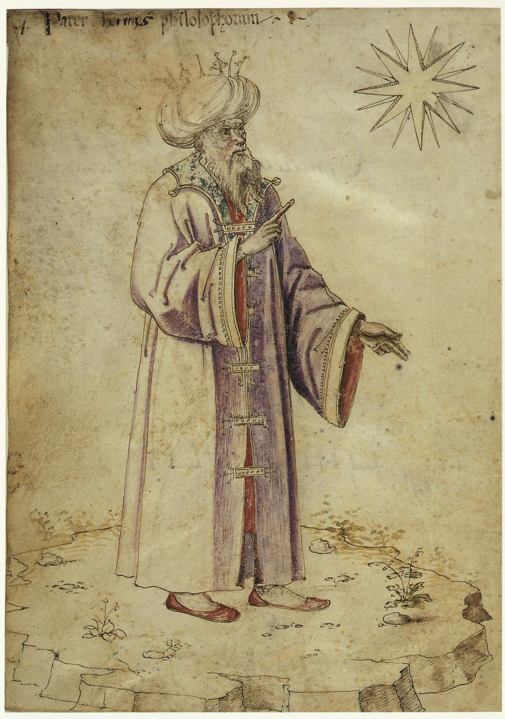 Hermes Trismegistus dressed in Arabic with turban and royal crown in the alchemistical manuscript Florence, Biblioteca Medicea Laurenziana, Ashb. 1166, fol. 1v. Heading: Pater Hermes philosophorum (Hermes, father of the philosophers).